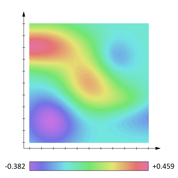 Abstract example of a scalar field.